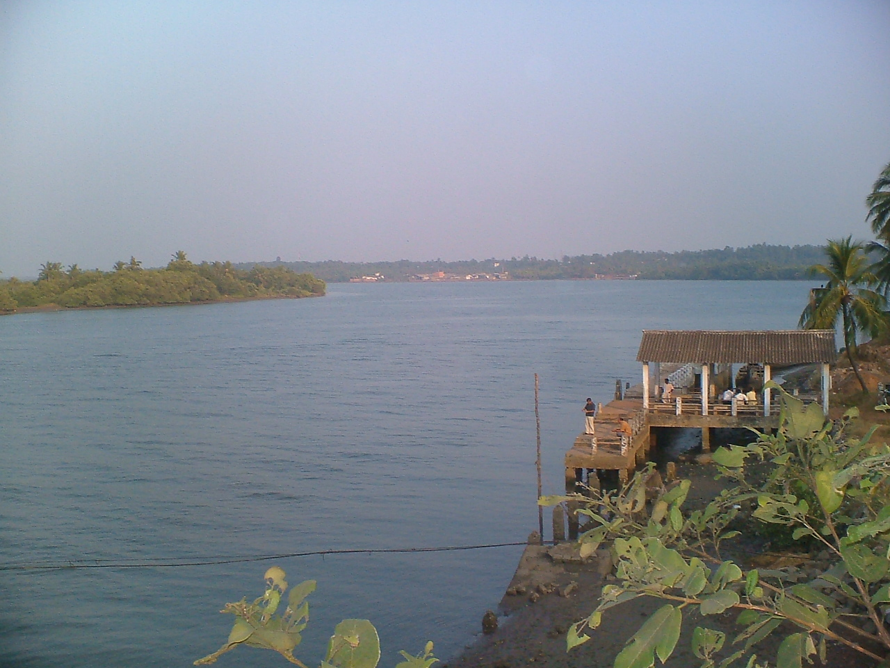 A view of Valapattanam River from the bridge built across it